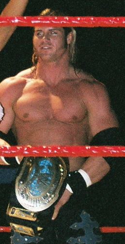 Johnny Nitro (with Melina) at a WWE house show.